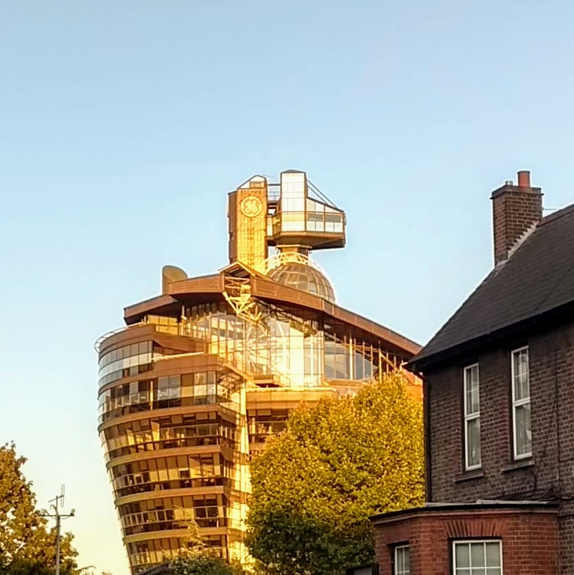 The Ark, Hammersmith viewed from Fulham Palace Road in 2019